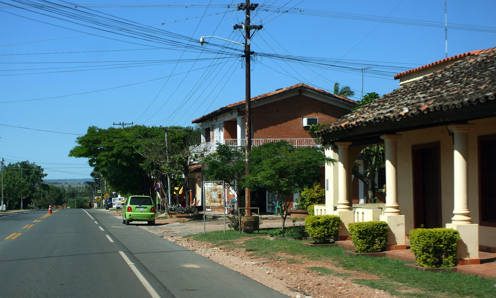 Route 1 passes through the town of San Miguel, Misiones Department, Paraguay.